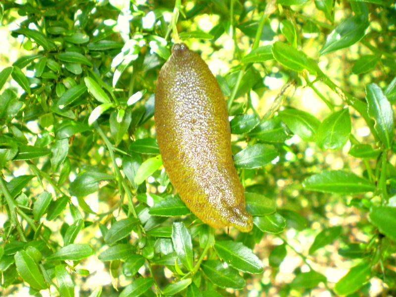 Citrus australasica, 'finger lime', brown fruit type.